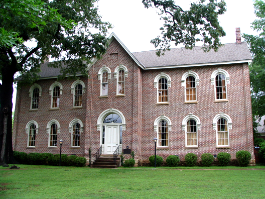 taken by E. Tebbetts